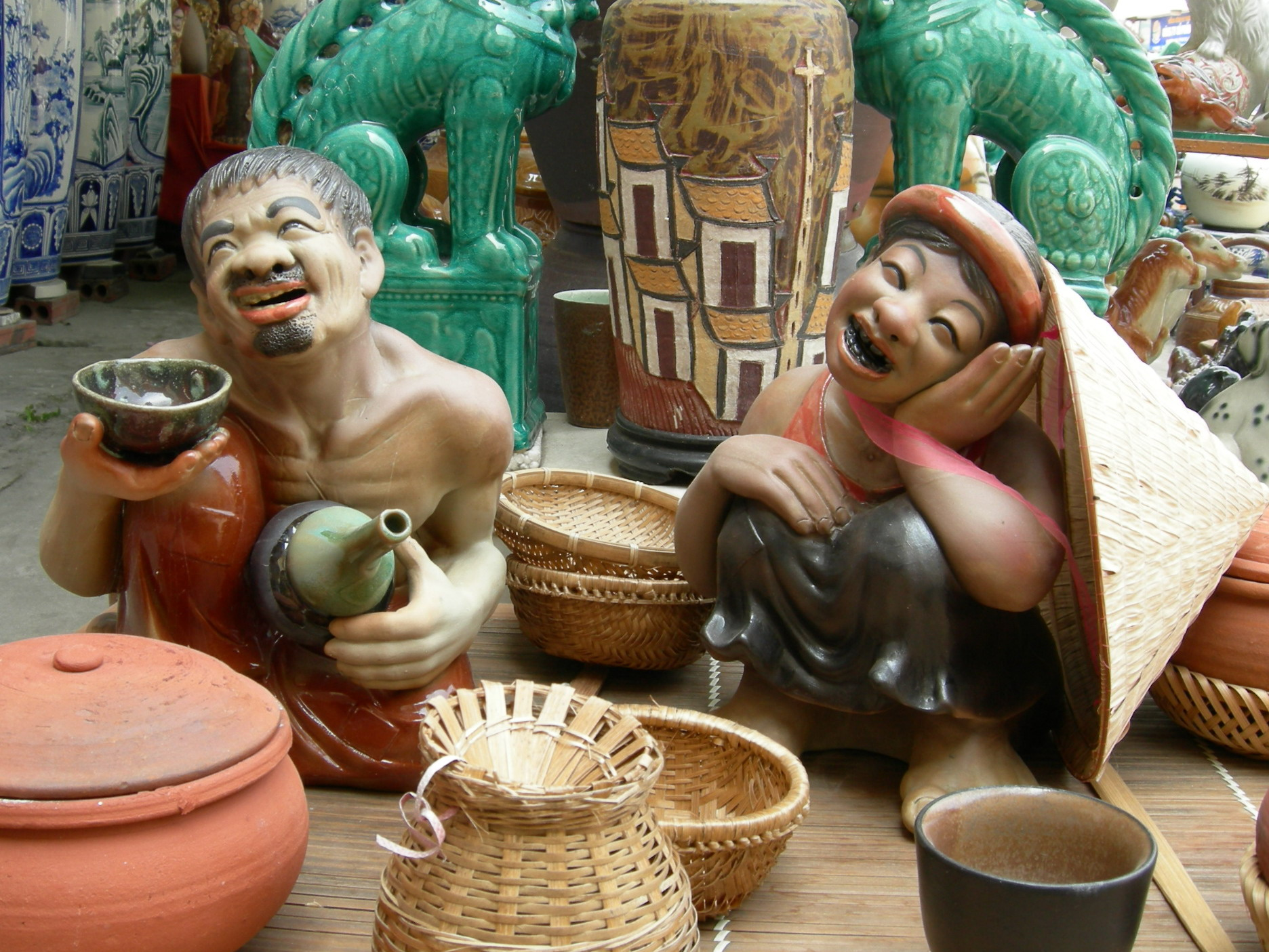 Ceramic statue of Chí Phèo and Thị Nở, Bát Tràng PorcelainTiếng Việt: Tượng Chí Phèo và Thị Nở, đồ gốm Bát Tràng